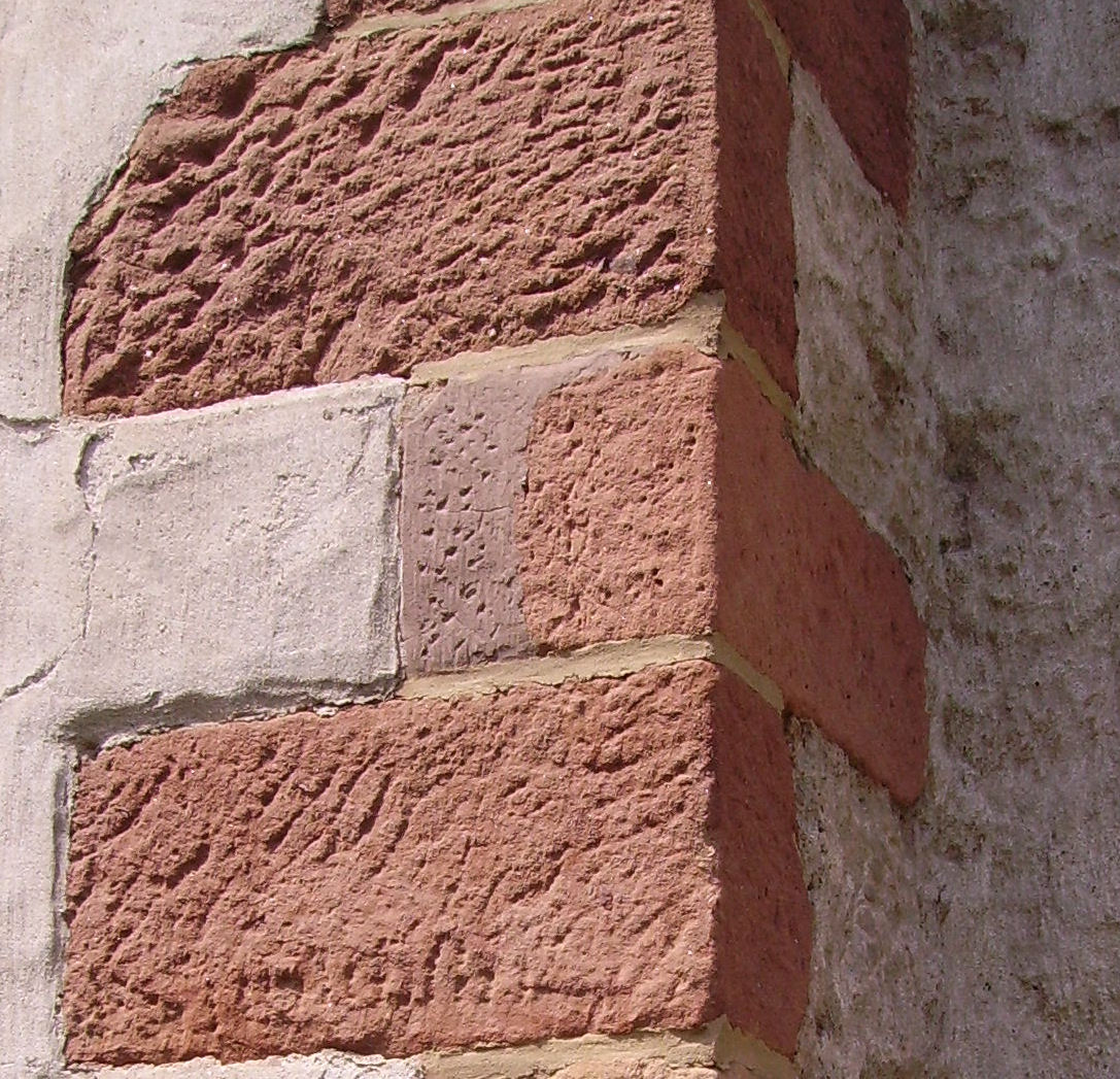 views of Wattenheim in the Palatinate, Germany